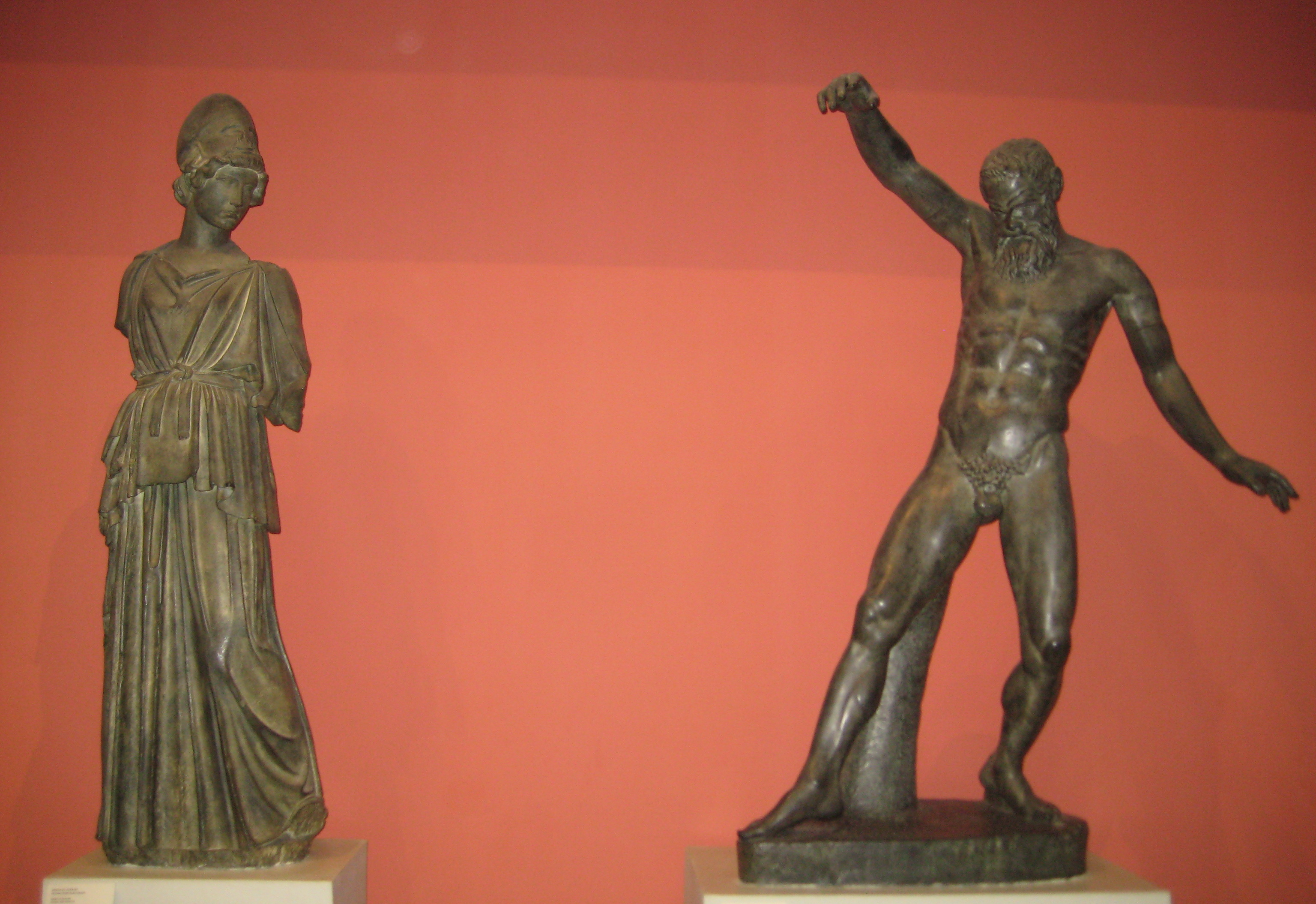 Athena and Marsyas by Myron. Cast in Pushkin Museum, Moscow